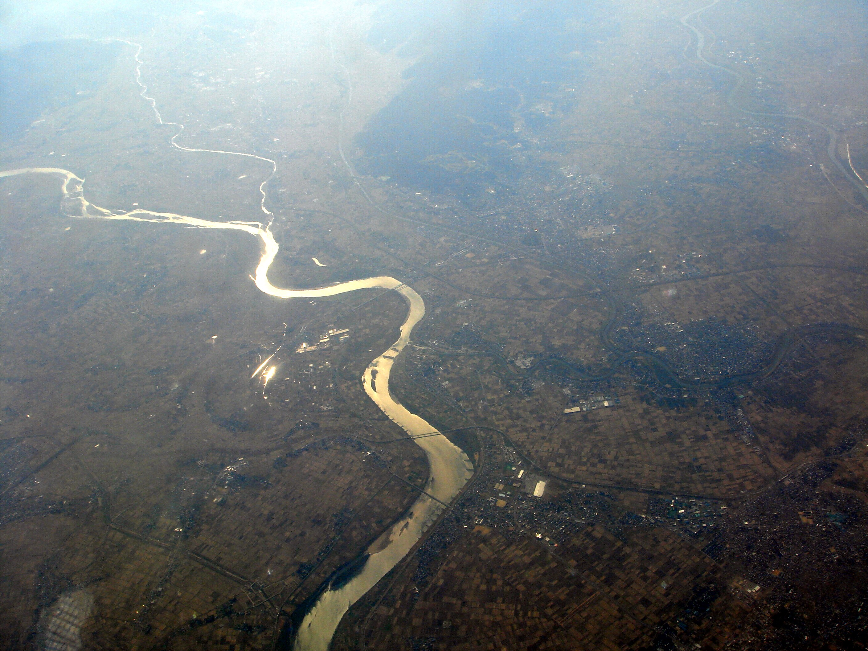 Aerial view of the Agano river (on the left, Agano city (阿賀野市), on the right, Niigata (新潟市) Akiha ward (秋葉区). Confluence point with the Hayade river (早出川) is visible on top left).